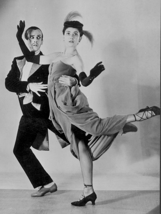 Cropped version to remove caption and frames of the image described below: Anthony, Gordon, 1902-1989 "Legendary partnering in ballet - Helpmann was Fonteyn's first partner. Beginning in 1933, the pair danced together for the last time at the Covent Garden celebration for Fonteyn's 65th birthday - more than 40 years later." -- Vendor's note. "Facade was danced by Helpmann and Fonteyn many, many times. It was the selection of Fonteyn when they danced for the last time at the Covent Garden celebration of Fonteyn's 65th birthday." -- Vendor's note. 1 postcard : b&?w ; 14.1 x 8.5 cm.